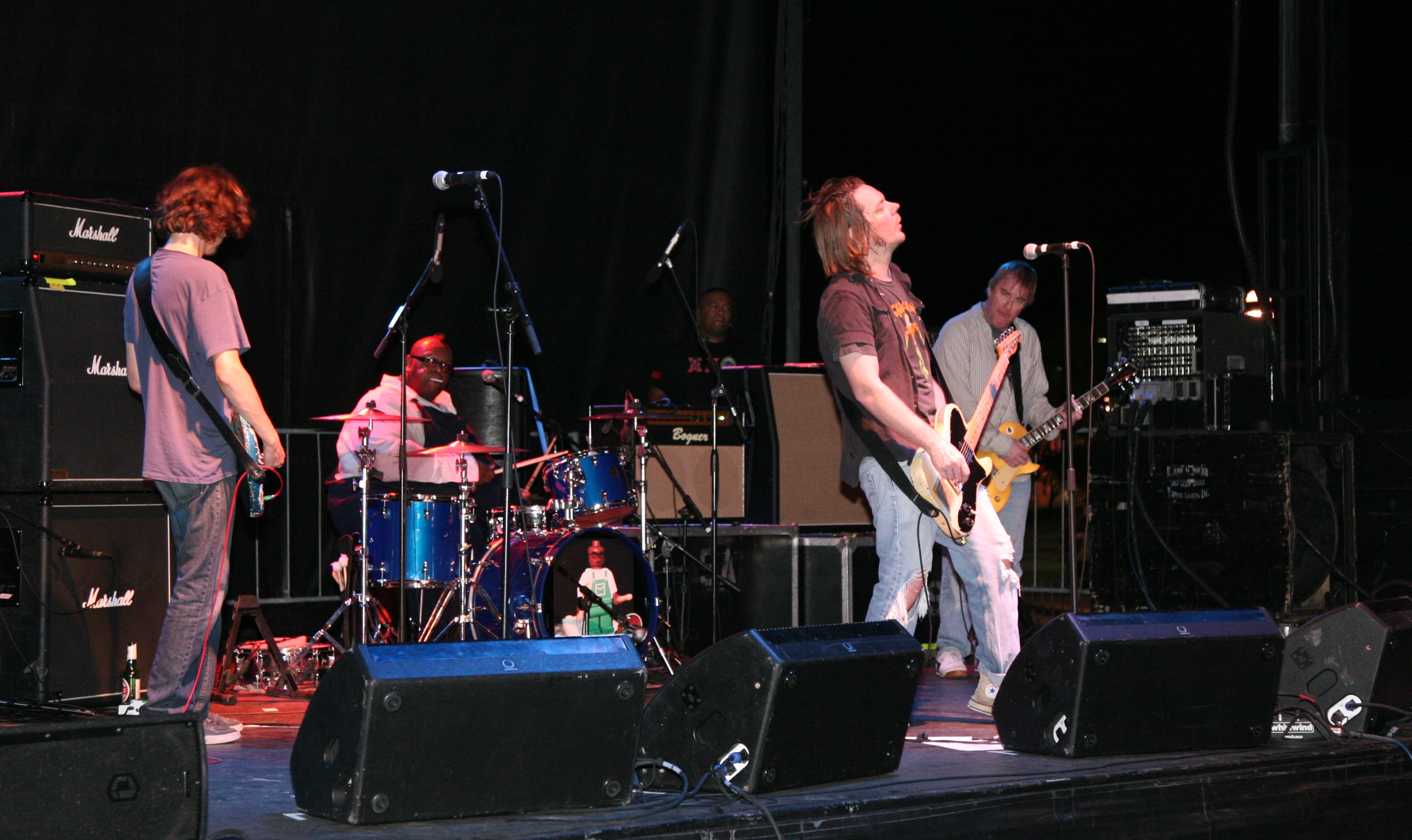 Soul Asylum in Urbana, Illinois. Second from the left: Michael Bland (drums), center front: Dave Pirner (front man), right: Dan Murphy (guitarist)